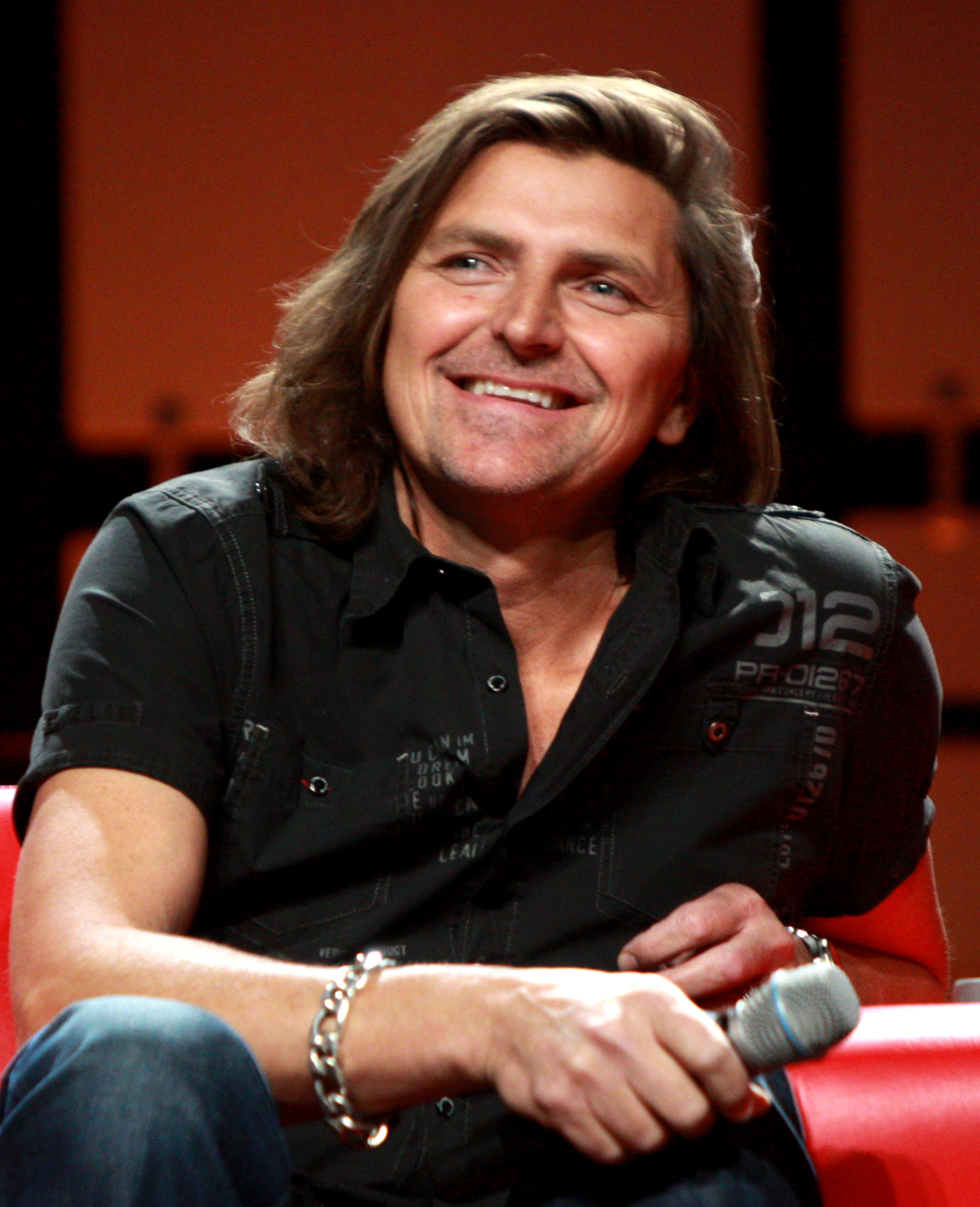 Robin Atkin Downes at the 2013 Phoenix Comicon in Phoenix, Arizona.